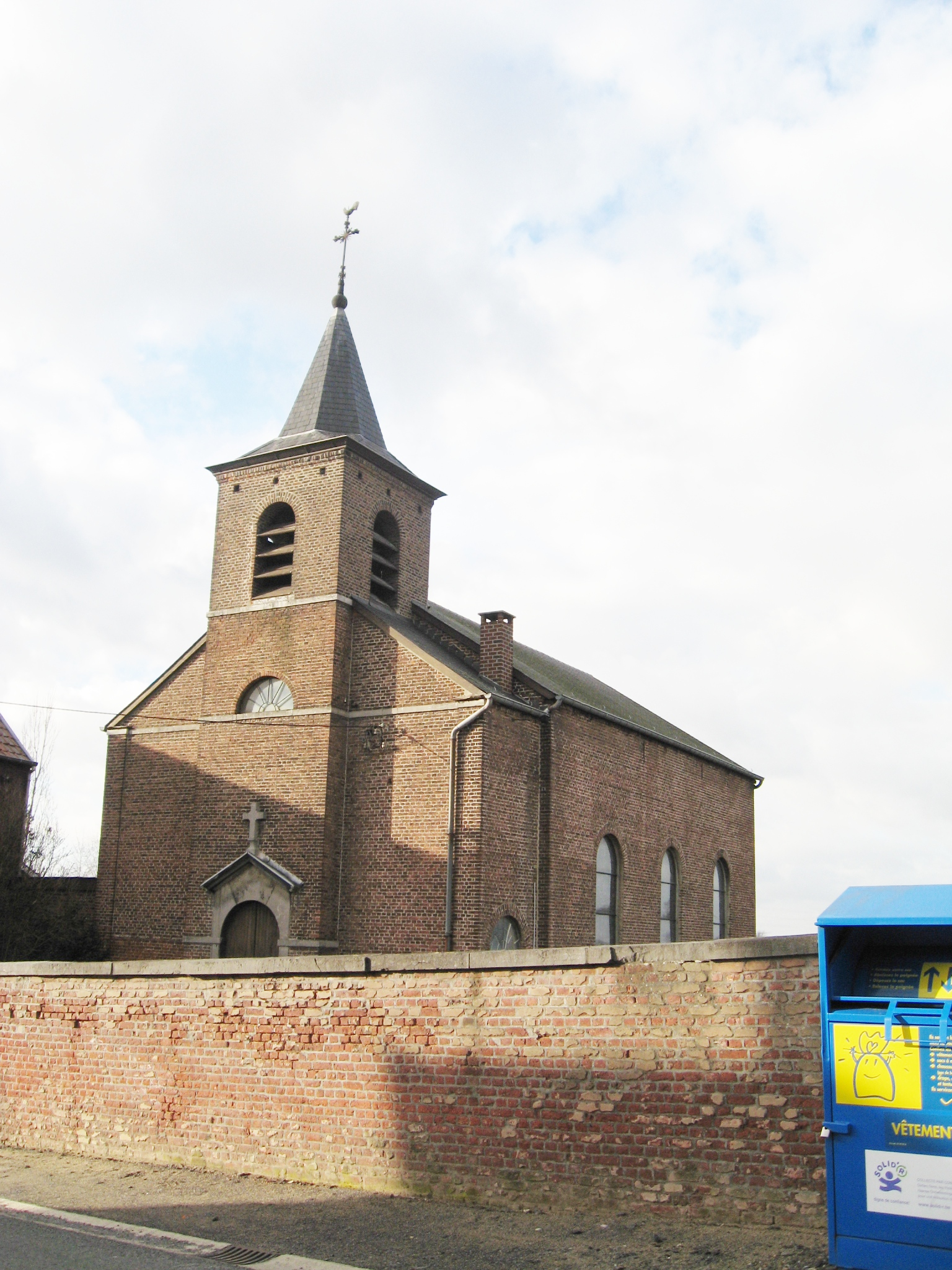 Church of Saint Lambert in Feneur, Dalhem, Liège, Belgium